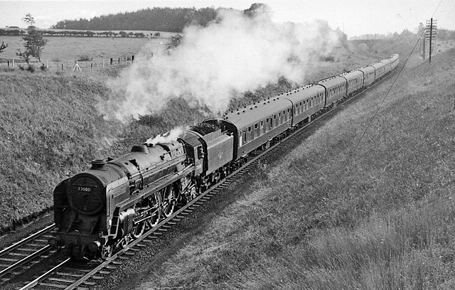 Manchester - Glasgow express approaching Carluke. View southward, towards Carstairs; ex-Caledonian West Coast Main Line, (London, Crewe etc.) - Carlisle - Carstairs - Glasgow Central. The train is headed by a BR Standard Class 6 4-6-2, No. 72000 'Clan Buchanan' - a Class that was largely confined to the Scottish Region